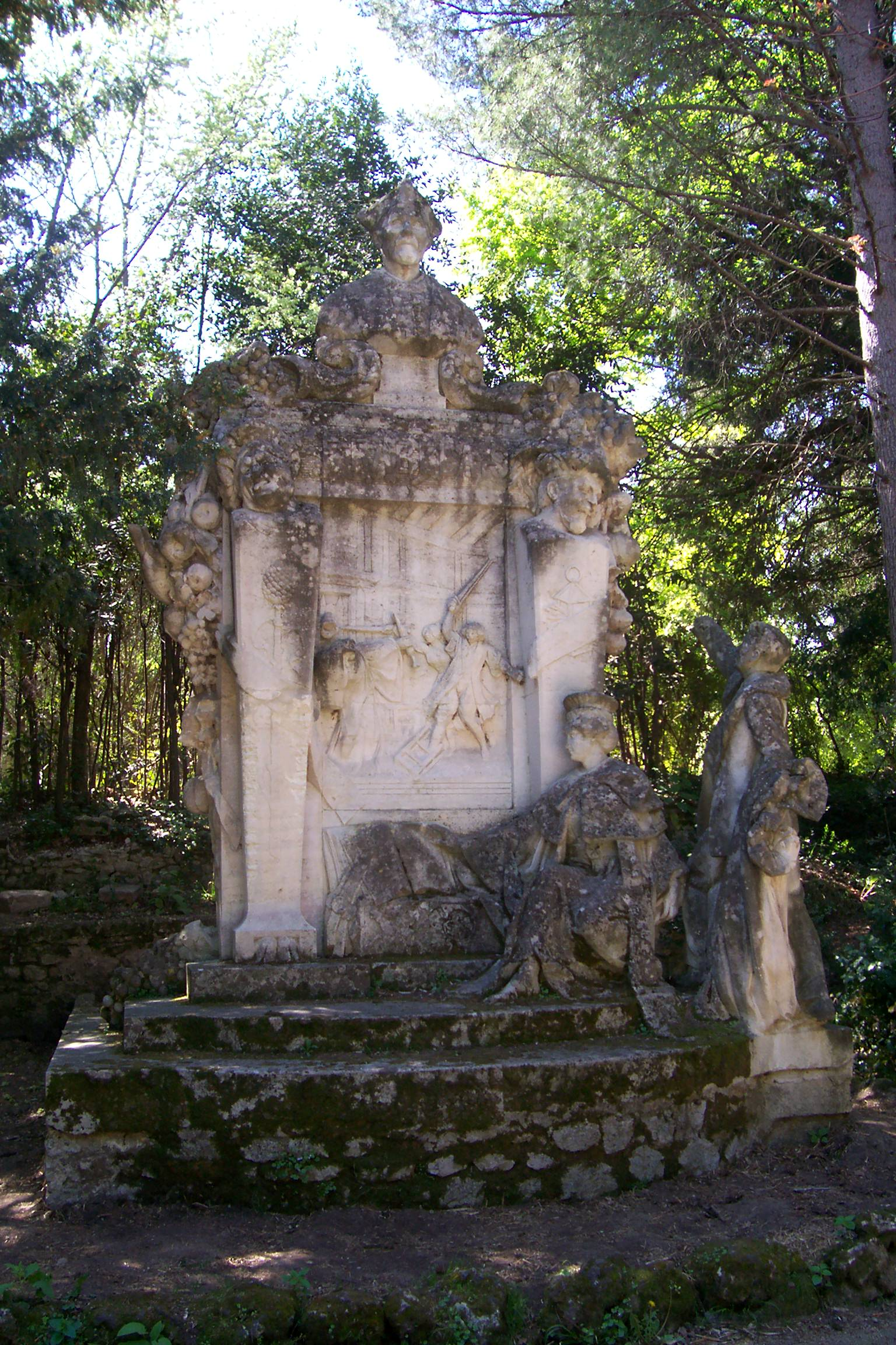 The monument in tribute to Rabelais in the Plant Garden of Montpellier, France.